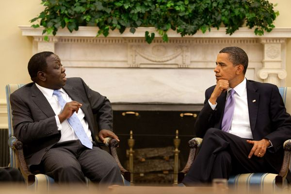 Prime Minister Morgan Tsvangirai of Zimbabwe talks with US President, Barack Obama